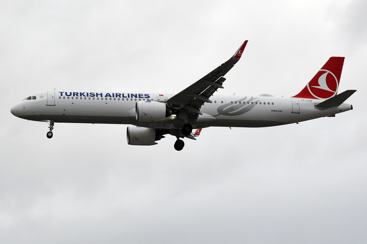 Turkish Airlines, TC-LSO, Airbus A321-271NX